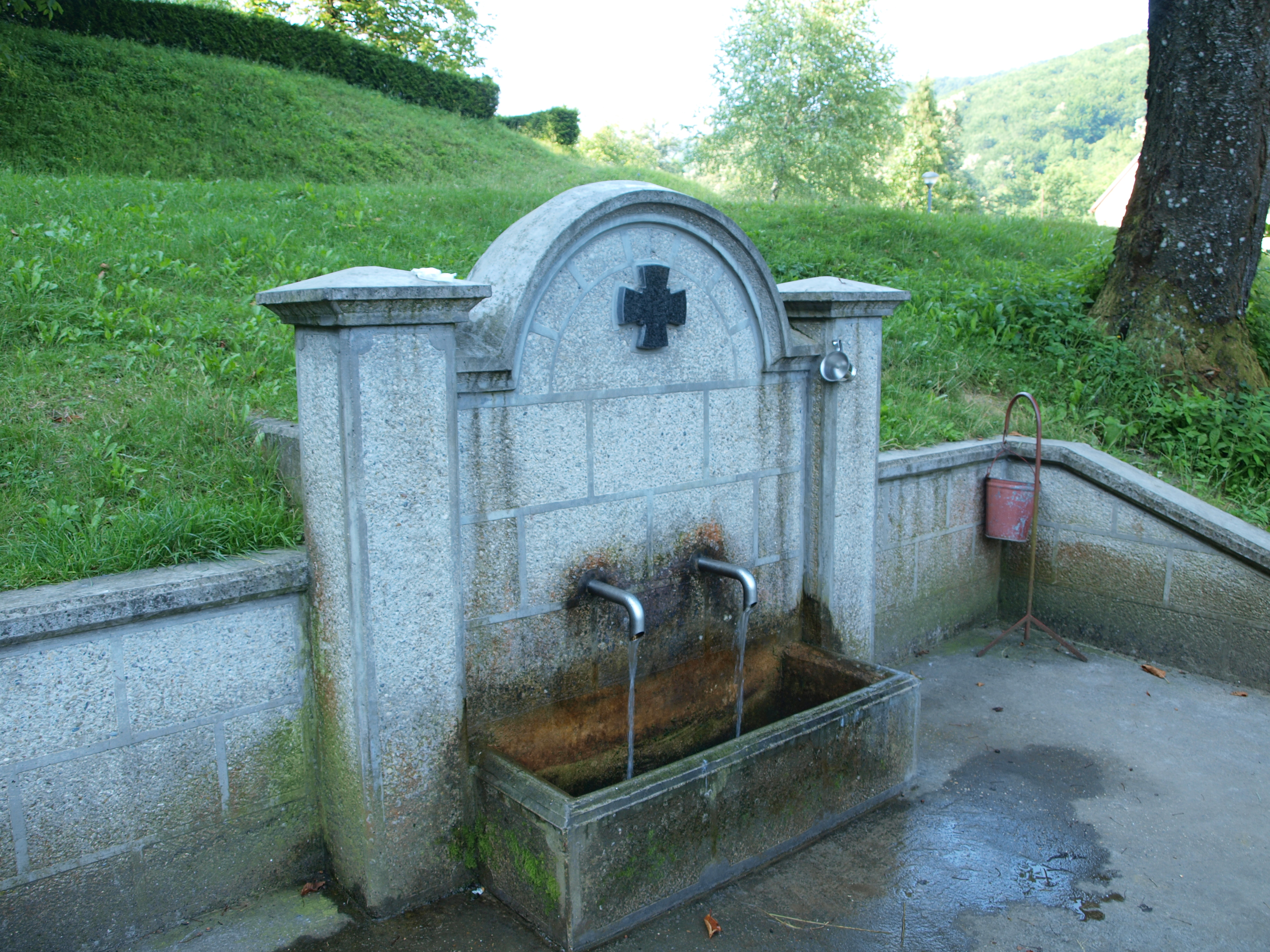 Water fountain, Serbian Orthodox monastery Moštanica, Republika Srpska, Bosnia.